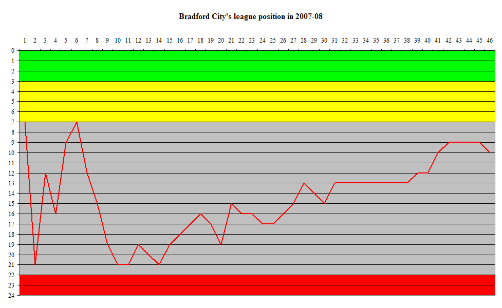 Graph showing league positions of Bradford City in 2007-08 season